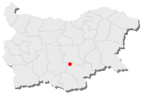 Map of Bulgaria, the red point is the position of Merichleri.